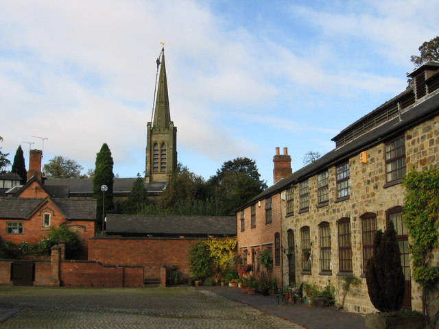 Park Mews, Church Street, Riddings, Derbyshire, England, looking west to the tower and spire of St James' parish church. Note the steeplejack at work on the spire.The red brick building on the left is Riddings Farmhouse.